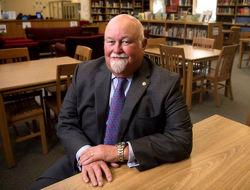 Dr. Robert S. Martin sits at a table in the School of Information and Library Science (SILS) library in 2017.